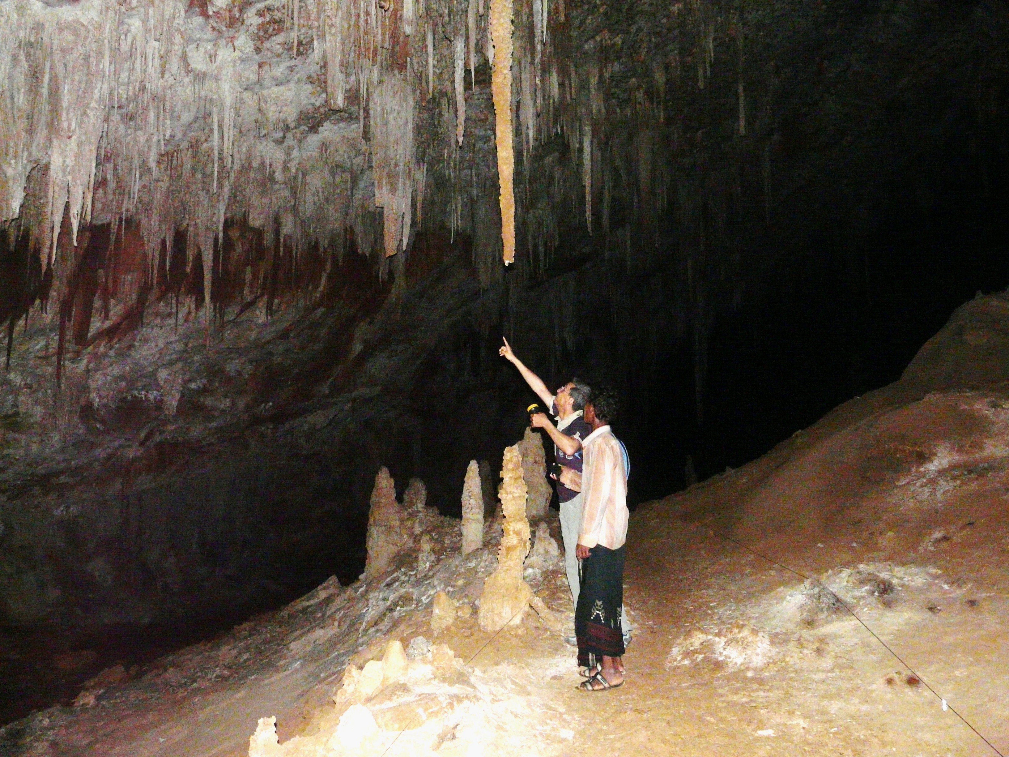 Hawk cave in Hala, East of Socotra island. It is about 15 meters in diameter, 8 meter height, 500 to 1000 meter horizontally deep.